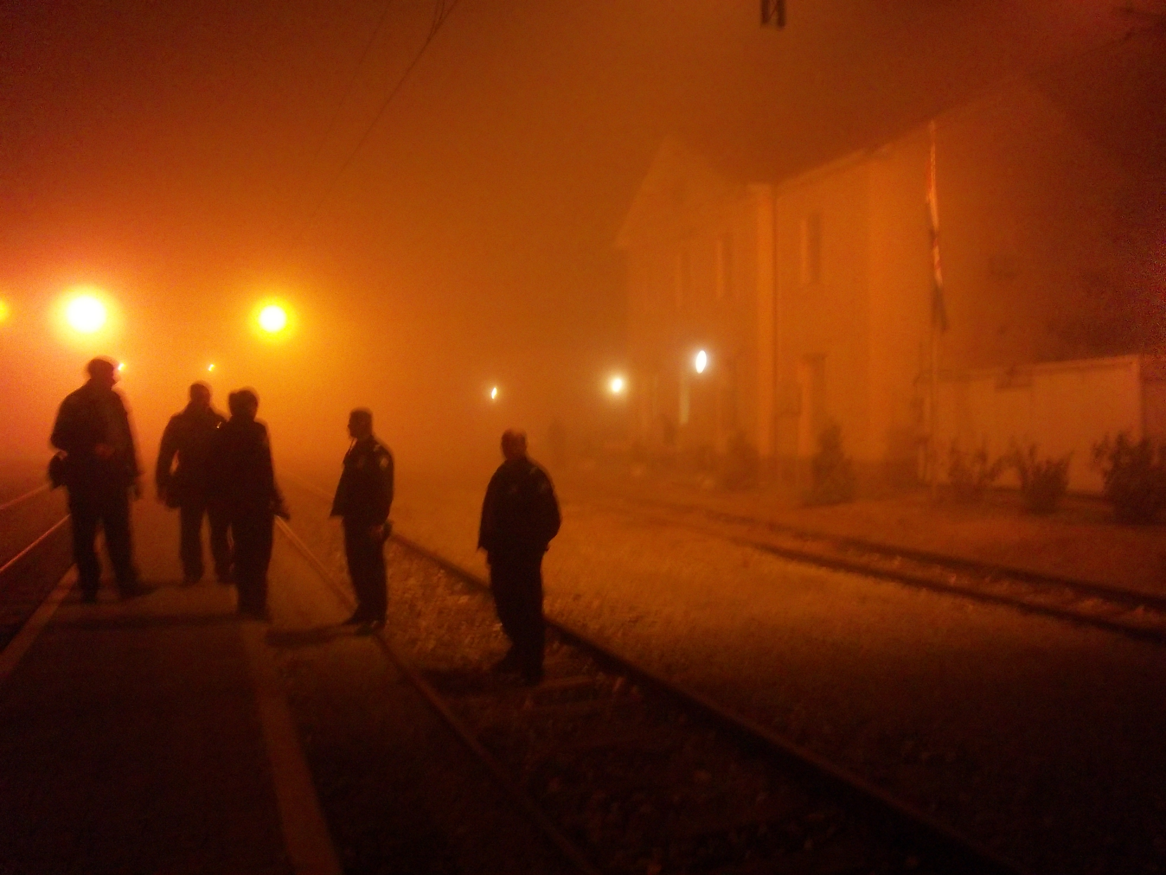 Railway station in Tovarnik, CroatiaHrvatski: Željeznička postaja u Tovarniku.